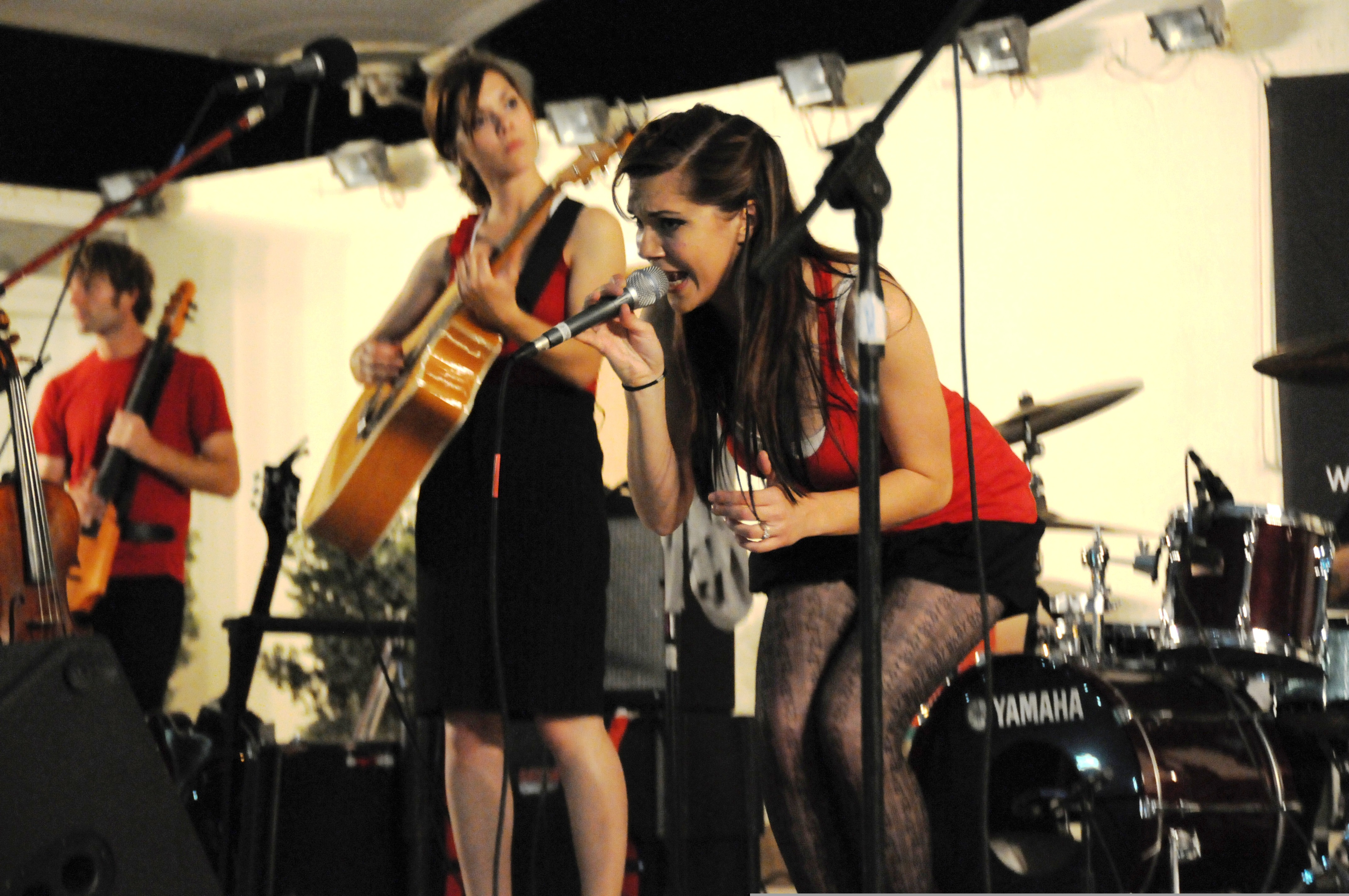 Pop/indie-rock band The Scarlet Ending performs for a live audience of deployed U.S. service members in Southwest Asia October 19th, 2009.